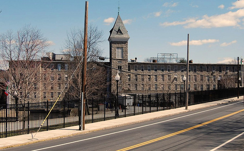 Valley Queen Mill, Riverpoint, Rhode Island (now occupied by Bradford Soap Works)